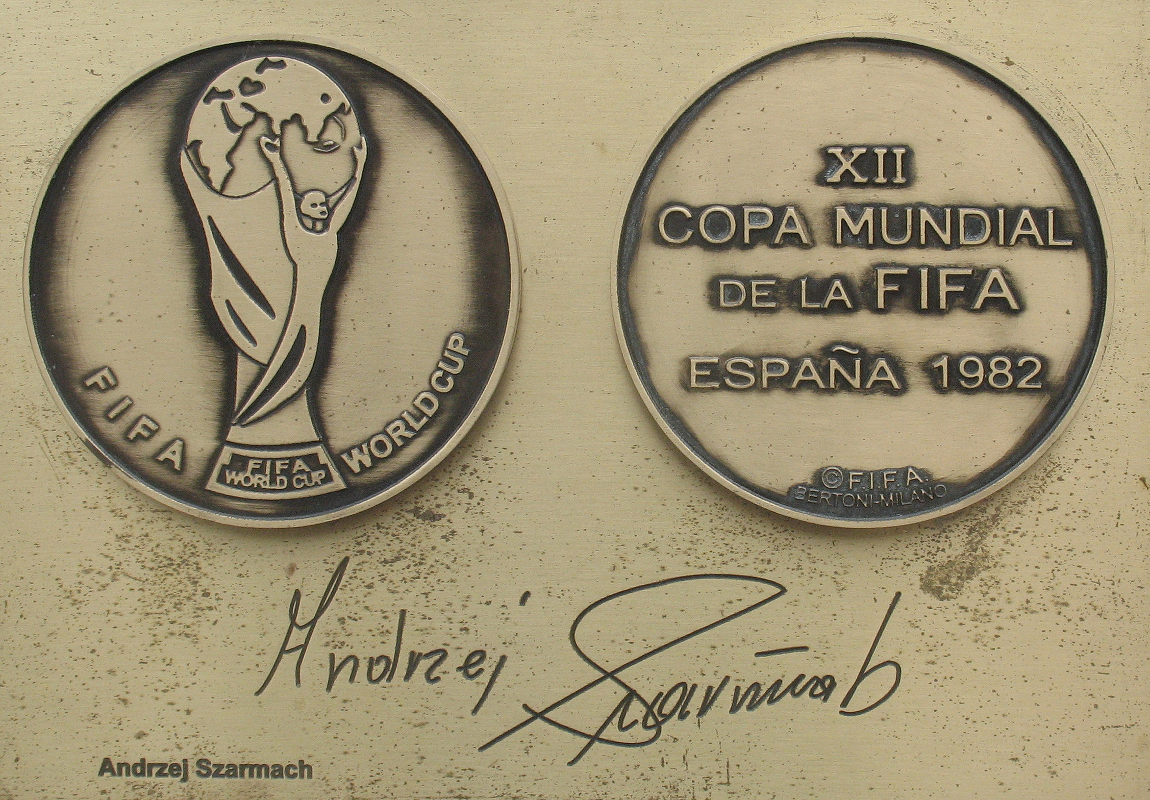 Andrzej Szarmach medal & autograph in Avenue of Sport Stars Dziwnów